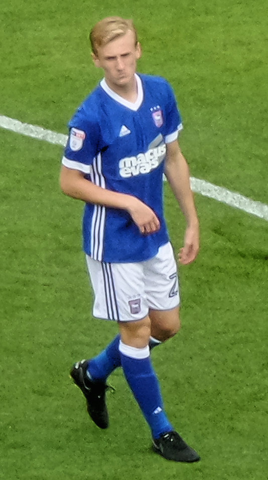 Flynn Downes on his Ipswich Town debut against Birmingham City on 5 August 2017